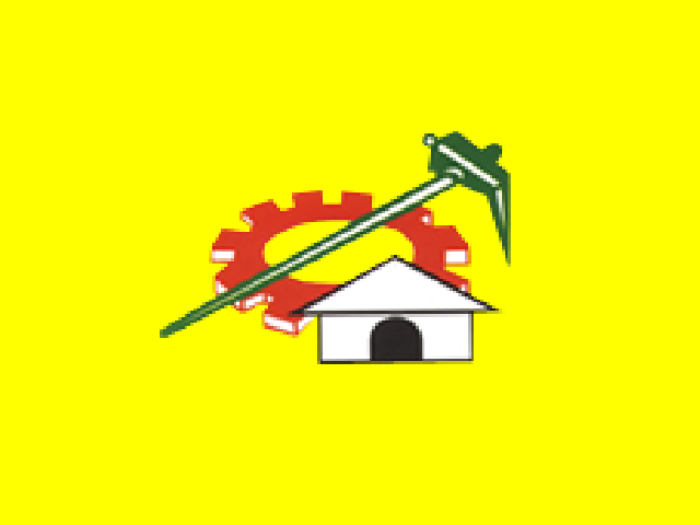 Flag of Telugu Desam Party of India.